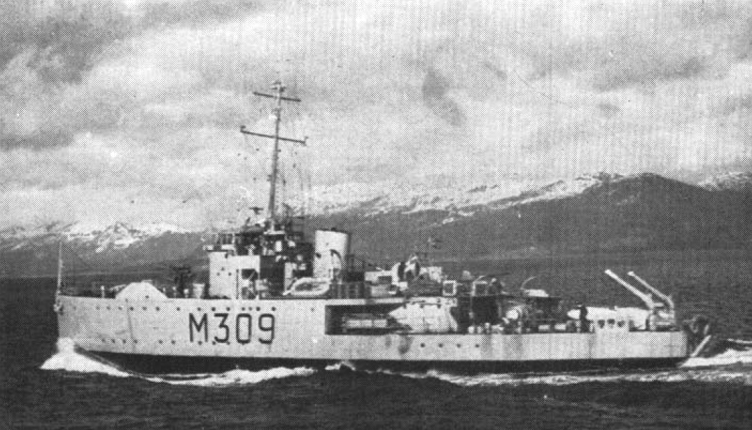 The Royal Norwegian Navy Minesweeper KNM Glomma (M309), circa 1960. She was originally built as the Bangor-class minesweeper HMS Bangor (J00) and commissioned in the Royal Navy in 1940. She was loaned to the Royal Norwegian Navy on 11 November 1945 and sold October 1946. Glomma was stricken in December 1961.